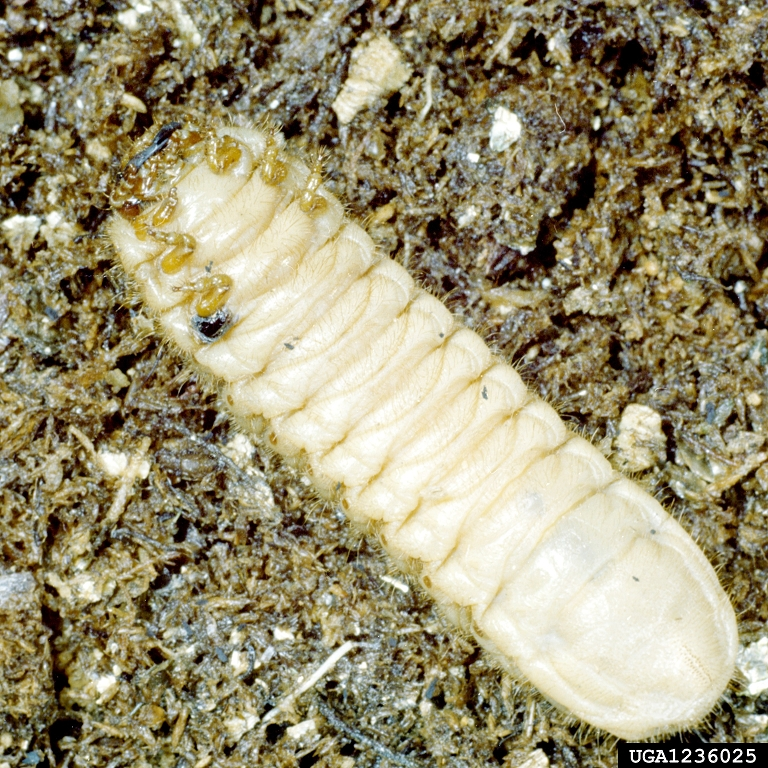 Cotinis nitida larva